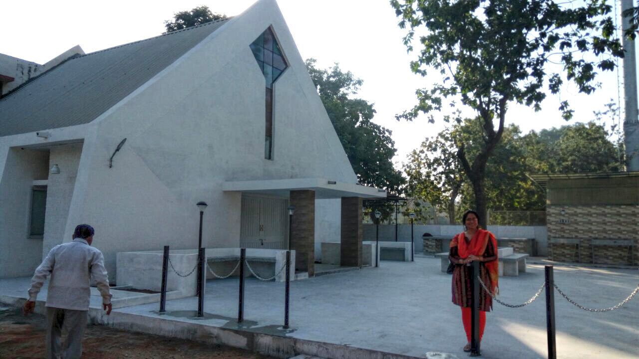 Church Hall Renovation Dec 2016